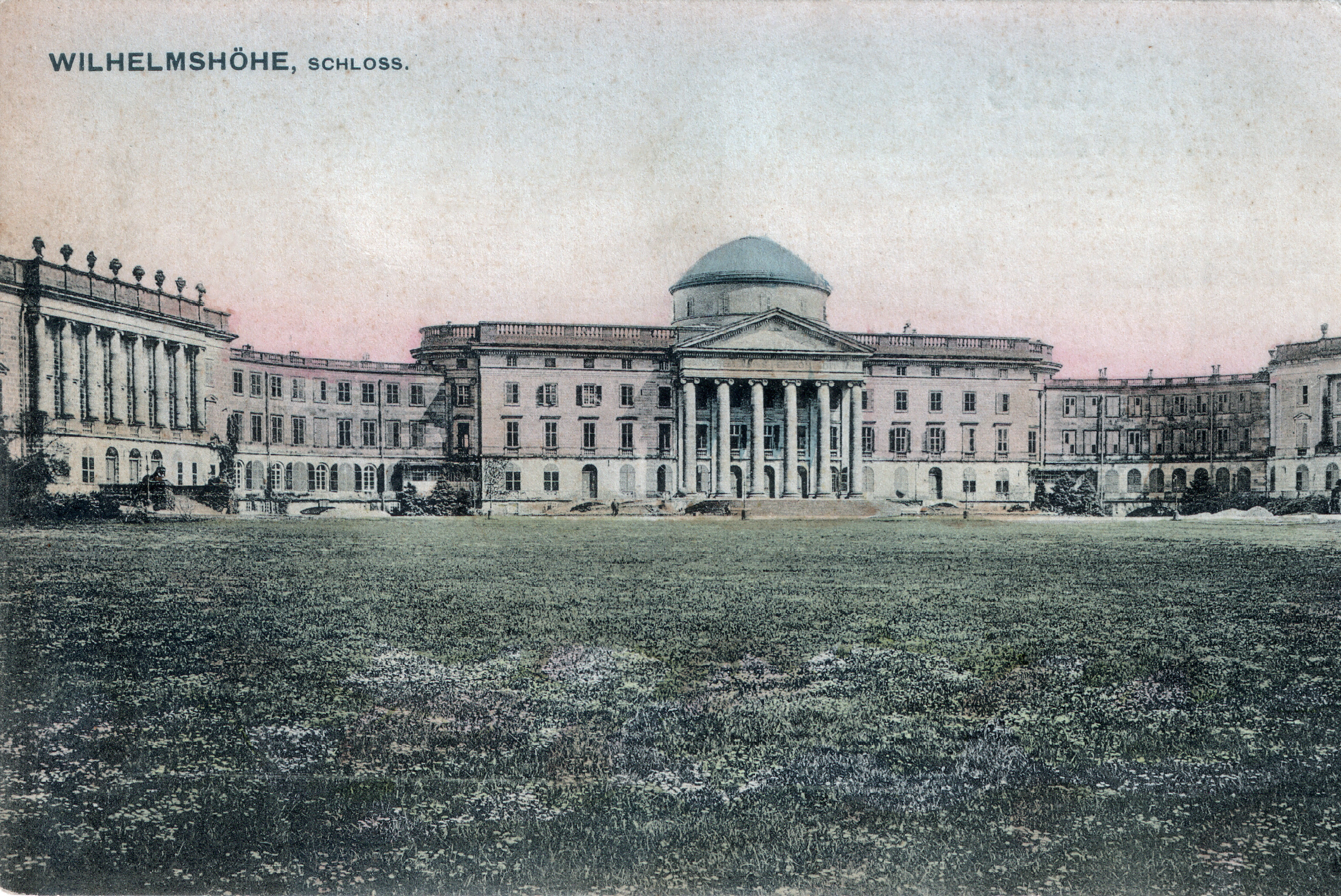 The castle in the Bergpark Wilhelmshöhe in Kassel, Germany. A postcard dated 1907.